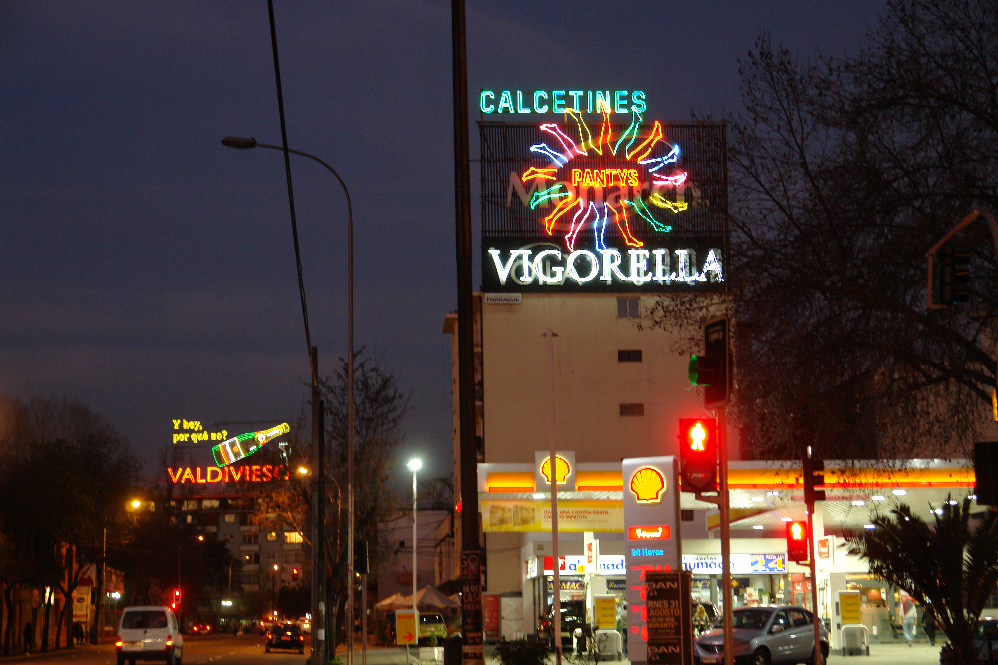 This is a photo of a national monument in Chile: 2168